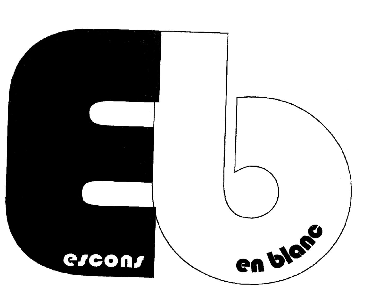 Logotipo antiguo de Escaños en blanco. Válido hasta las elecciones generales de 2011